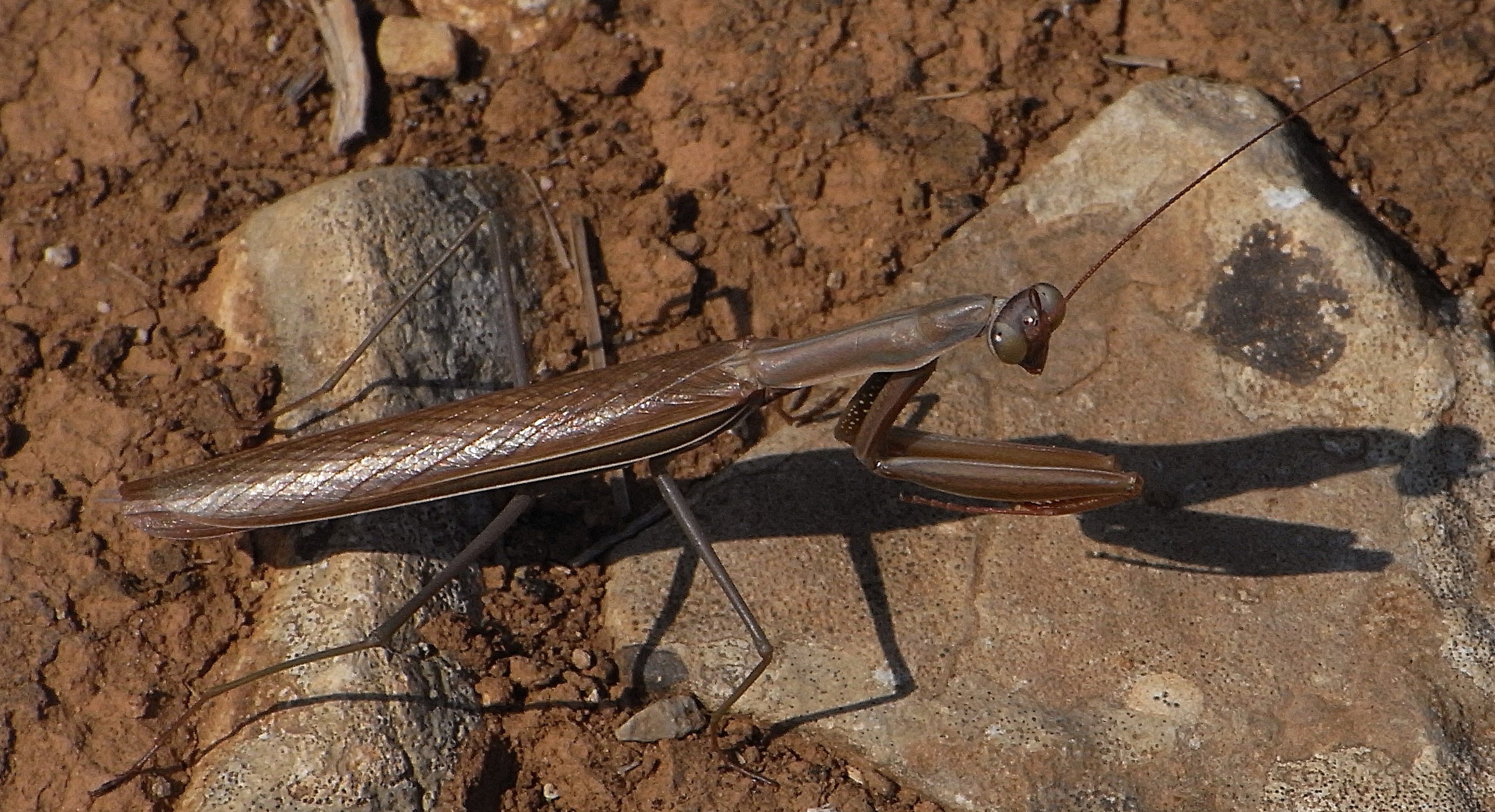 Male of Mantis religiosa brown morph, from Southern France, Clape near Narbonne-PlageRicoh R8